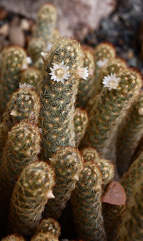 Mammillaria elongata in National M. M. Grishko botanical garden (Kiev, Ukraine)